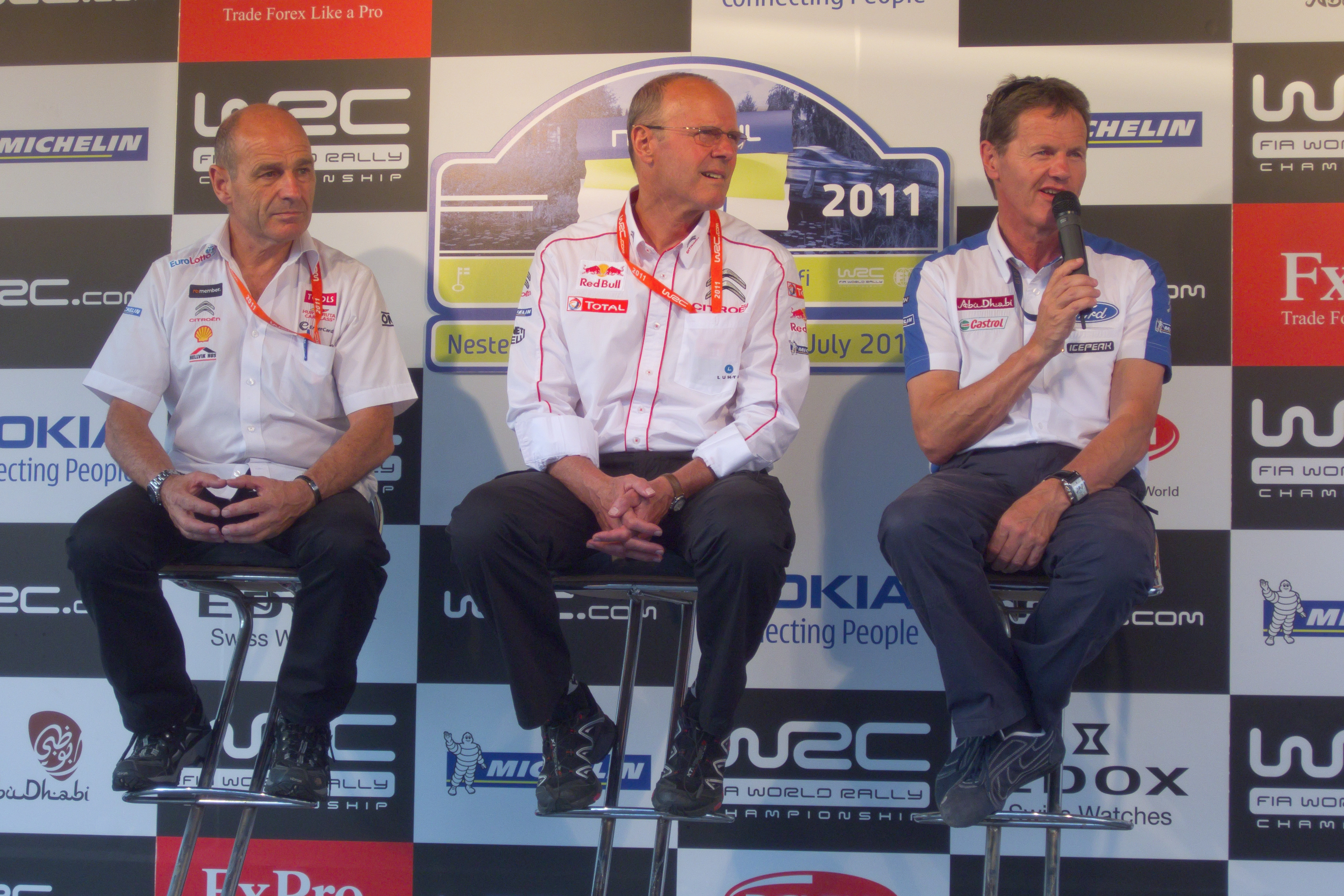 Ken Rees, Olivier Quesnel and Malcolm Wilson at the end-of-day interview of day one of Rally Finland 2011.